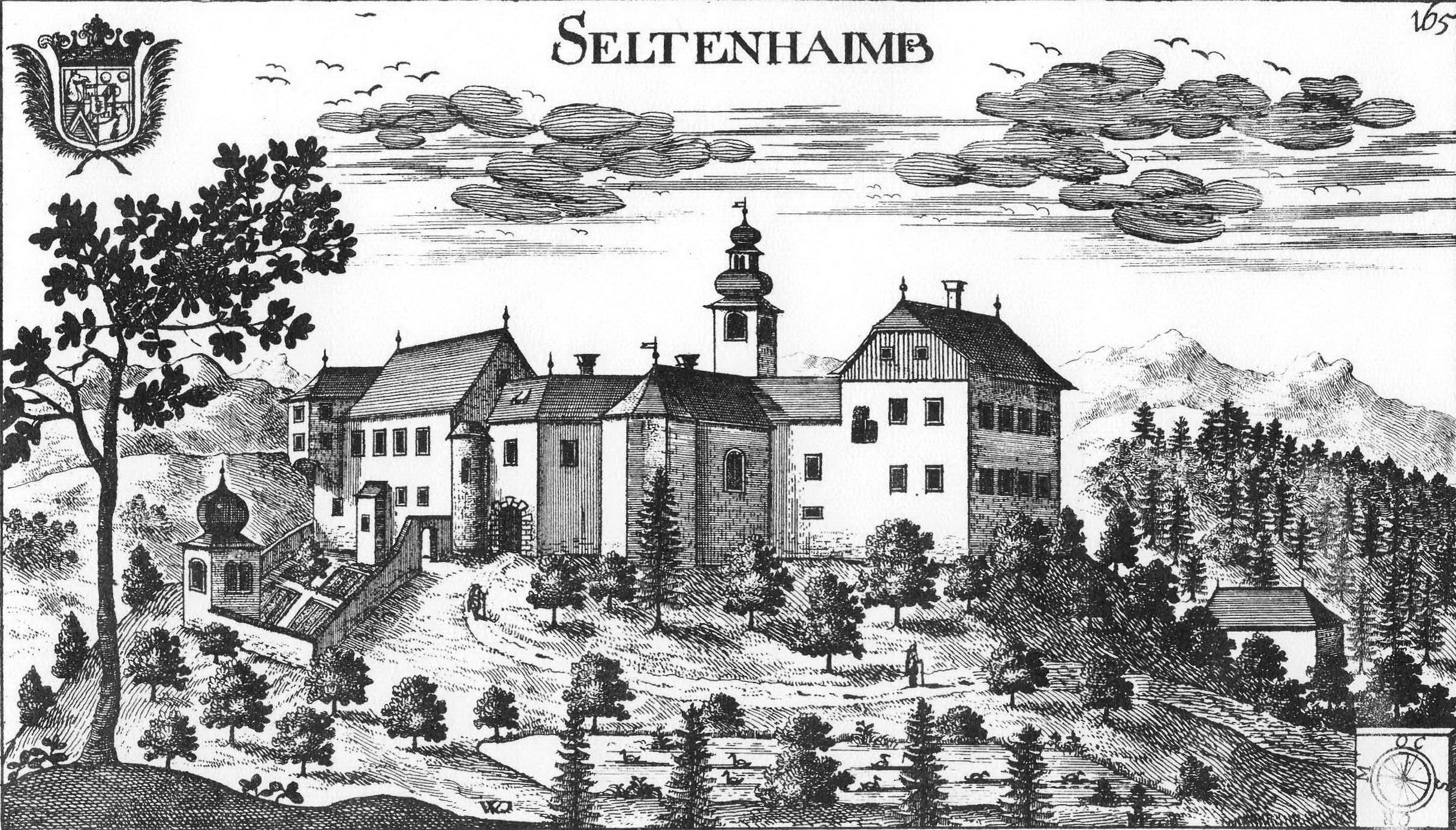 Castle of Seltenheim in the Carinthian capital of Klagenfurt in Carinthia / Austria / European Union.